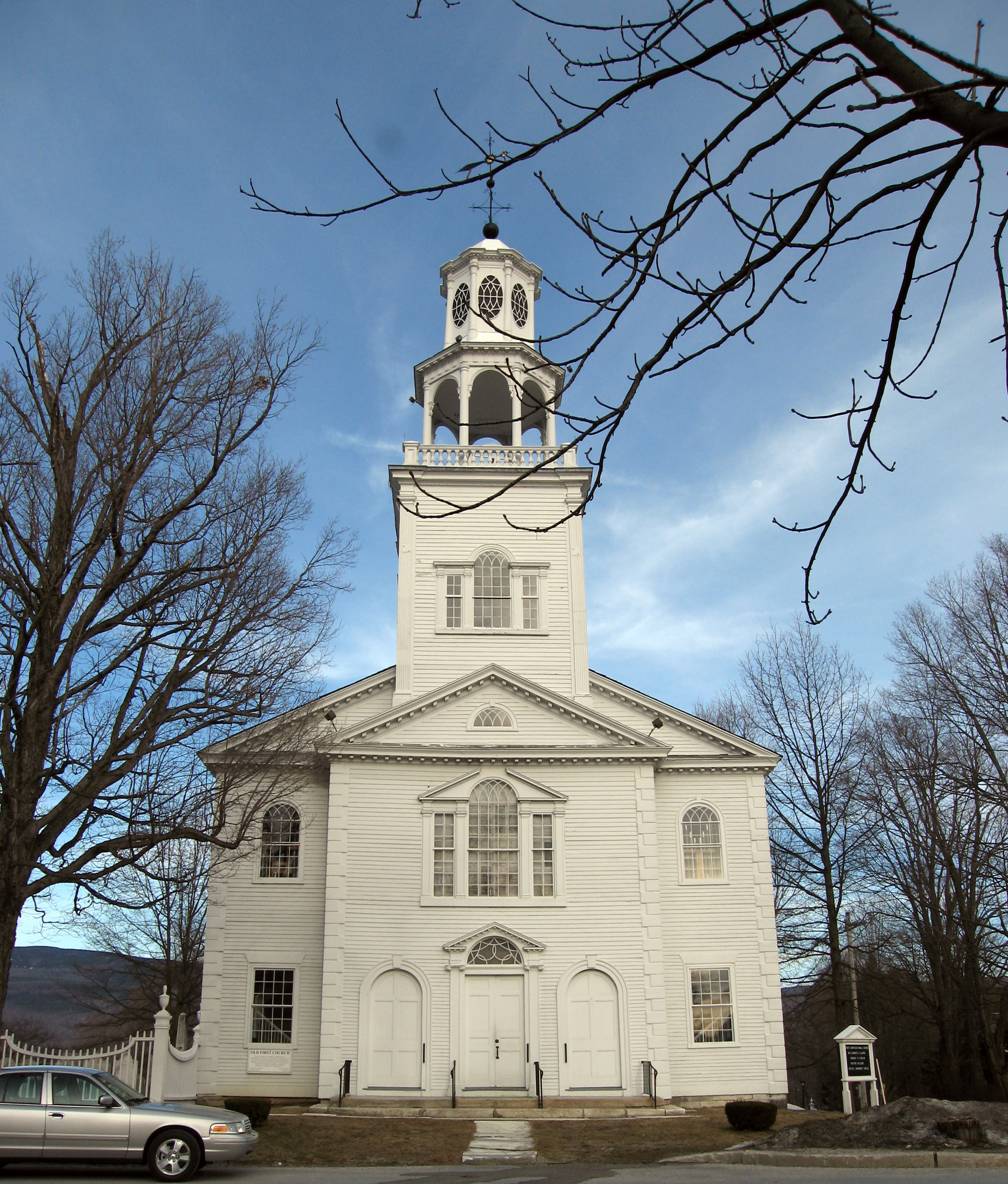 First Congregational Church of Bennington, the oldest house of worship in Bennington, Vermont